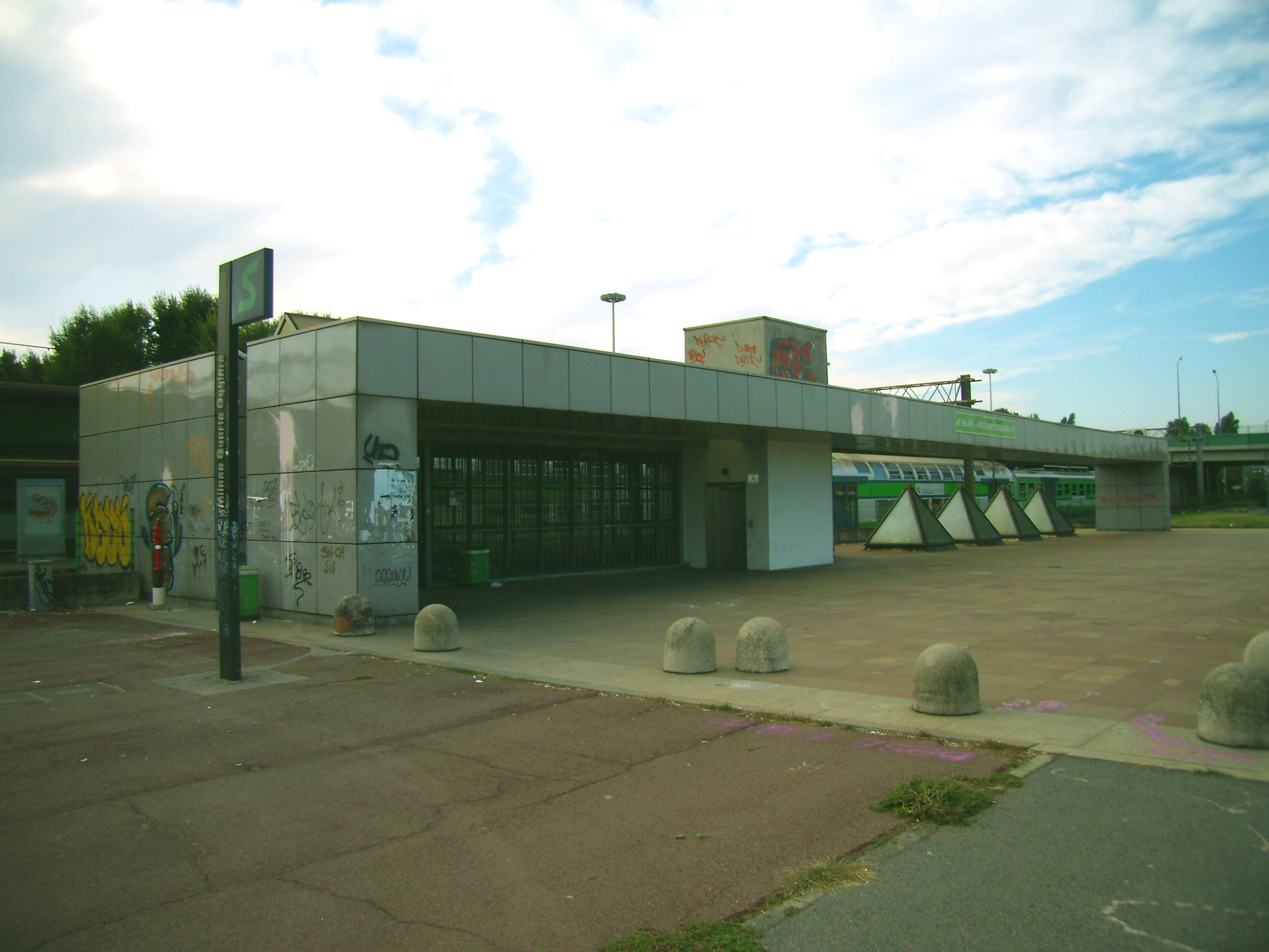 Quarto Oggiaro railway station in Milan, Italy - East entrance